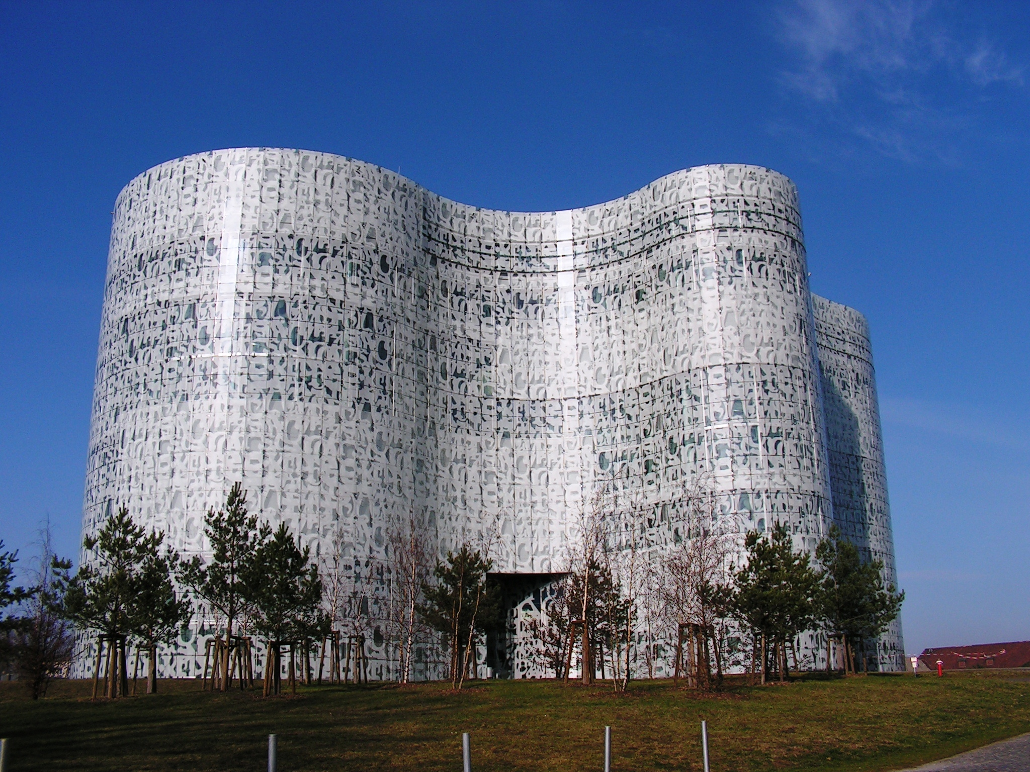 University library in Cottbus by the architects Herzog & de Meuron, 2005